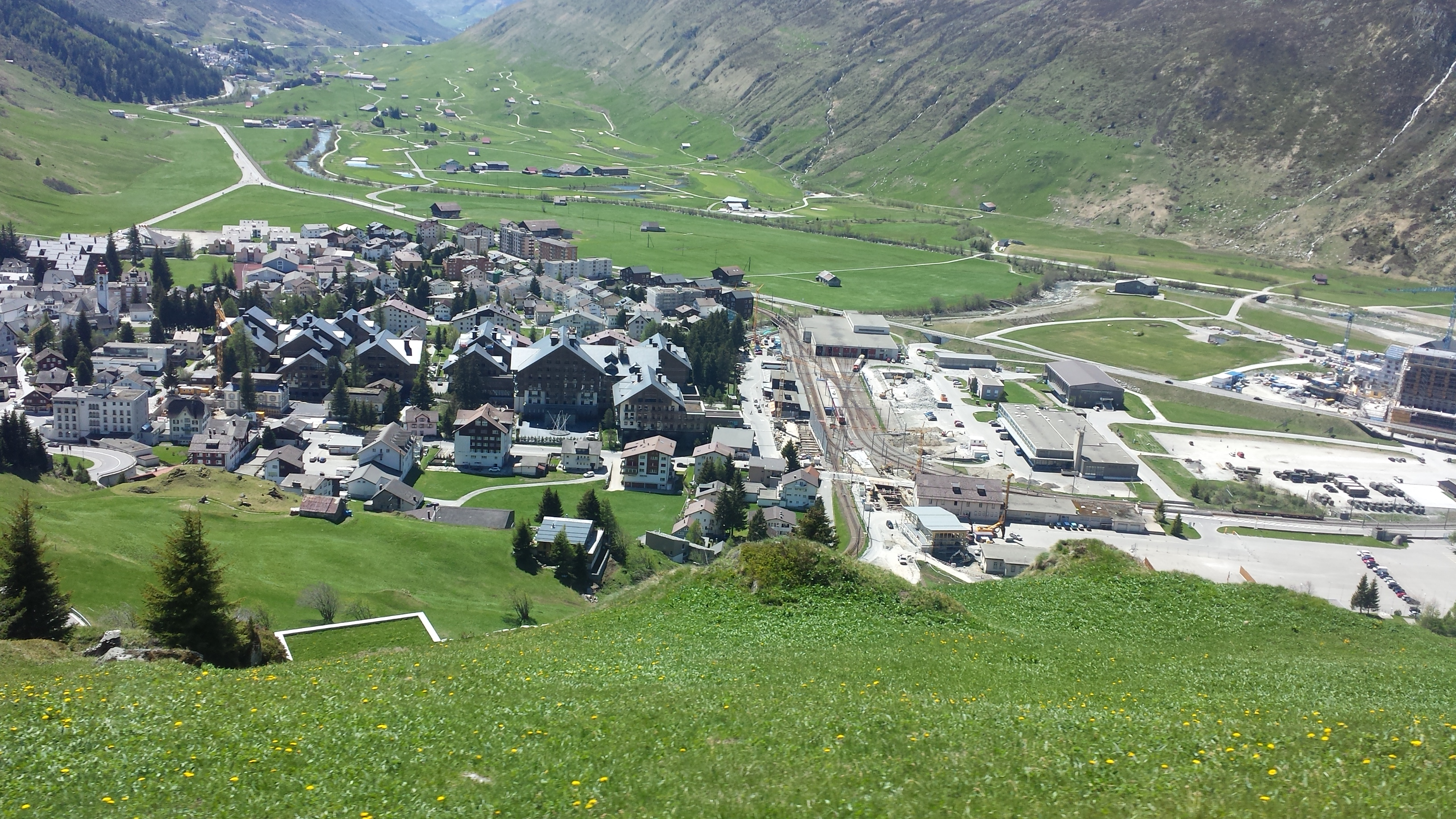 Andermatt railway station seen from a train on the climb to the Oberalp pass. The line to the pass, along which this train passed only 5 minutes earlier, can be seen towards the bottom of the picture. The line towards Brig (via the Furka base tunnel) parallels the main road towards the top of the picture. The branch to Göschenen leaves the picture lower right. The town of Andermatt lies to the left.